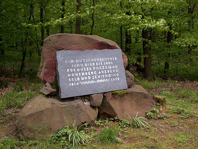 Memorial sеone of C.M. Hutschenreuther close to a former kaoline mine in Hohenberg a. d. Eger.